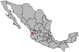 Locator map of Tepic, Nayarit, Mexico